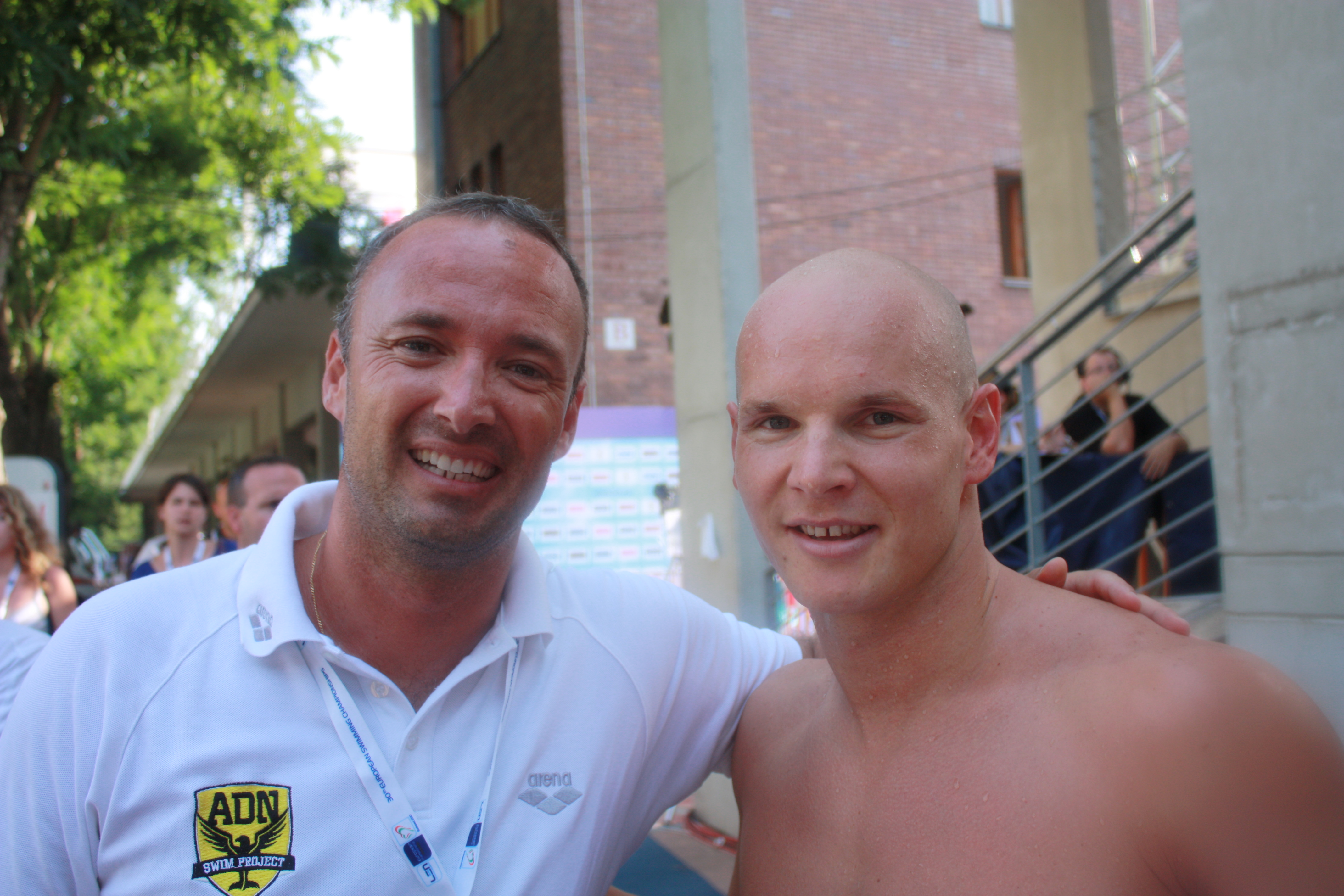 Evgeniy Korotyshkin (right) and Andrea di Nino. Budapest-2010